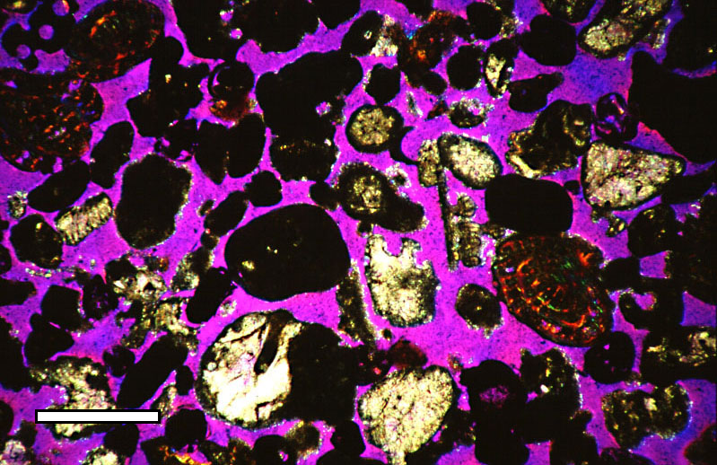 Thin section under gypsum plate of microscopic carbonate grains (skeletal grains and intraclasts), from lithified Pleistocene eolianites of Man Head Cay, San Salvador Island, Bahamas. Porosity shown as purple color. Scale bar 500 micrometres. From: Petrographic Analysis and Depositional History of an Open, Carbonate Lagoon: Rice Bay, San Salvador, Bahamas, 2000, James L. Stuby, masters thesis, Wright State University, Dayton, Ohio. Figure A3-20 from Appendix 3: Photomicrographs of Carbonate Grains in Rice Bay